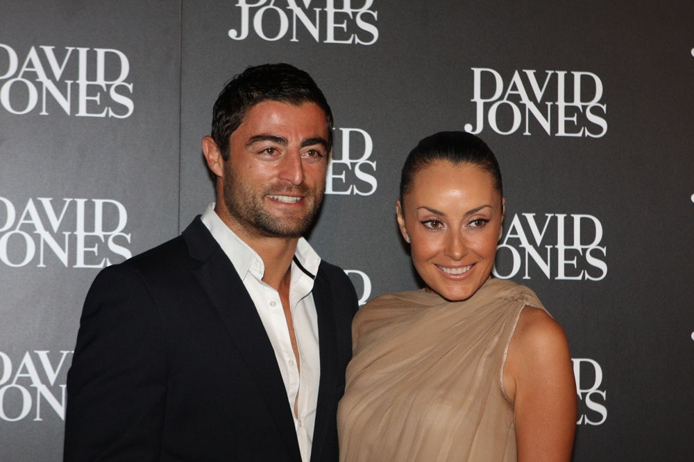 David Jones Autumn Winter Launch With Miranda Kerr At David Jones Sydney